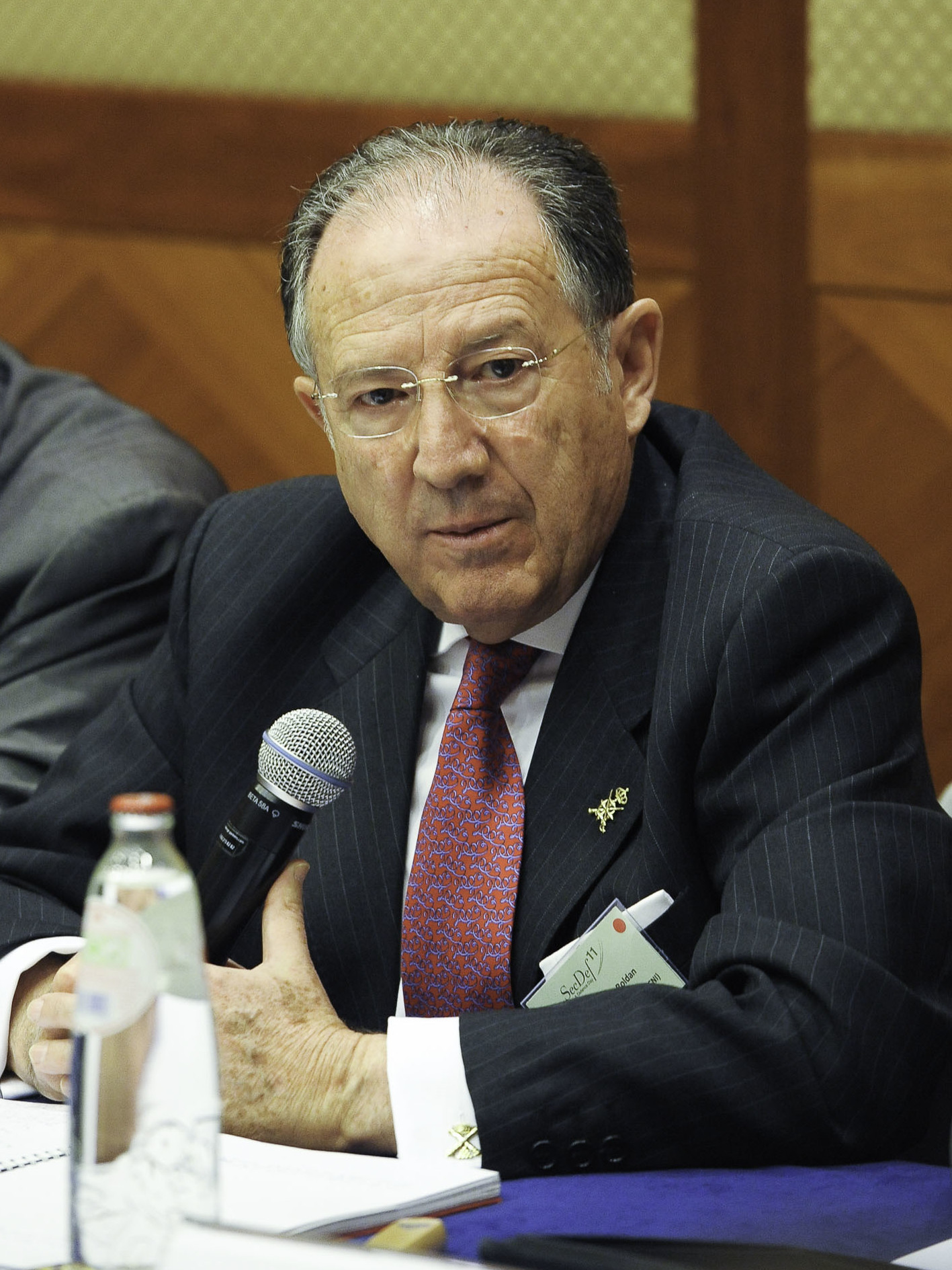 Army General Félix Sanz Roldán, Director of the National Intelligence Center